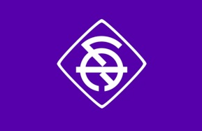 Flag of Funagata yamagata